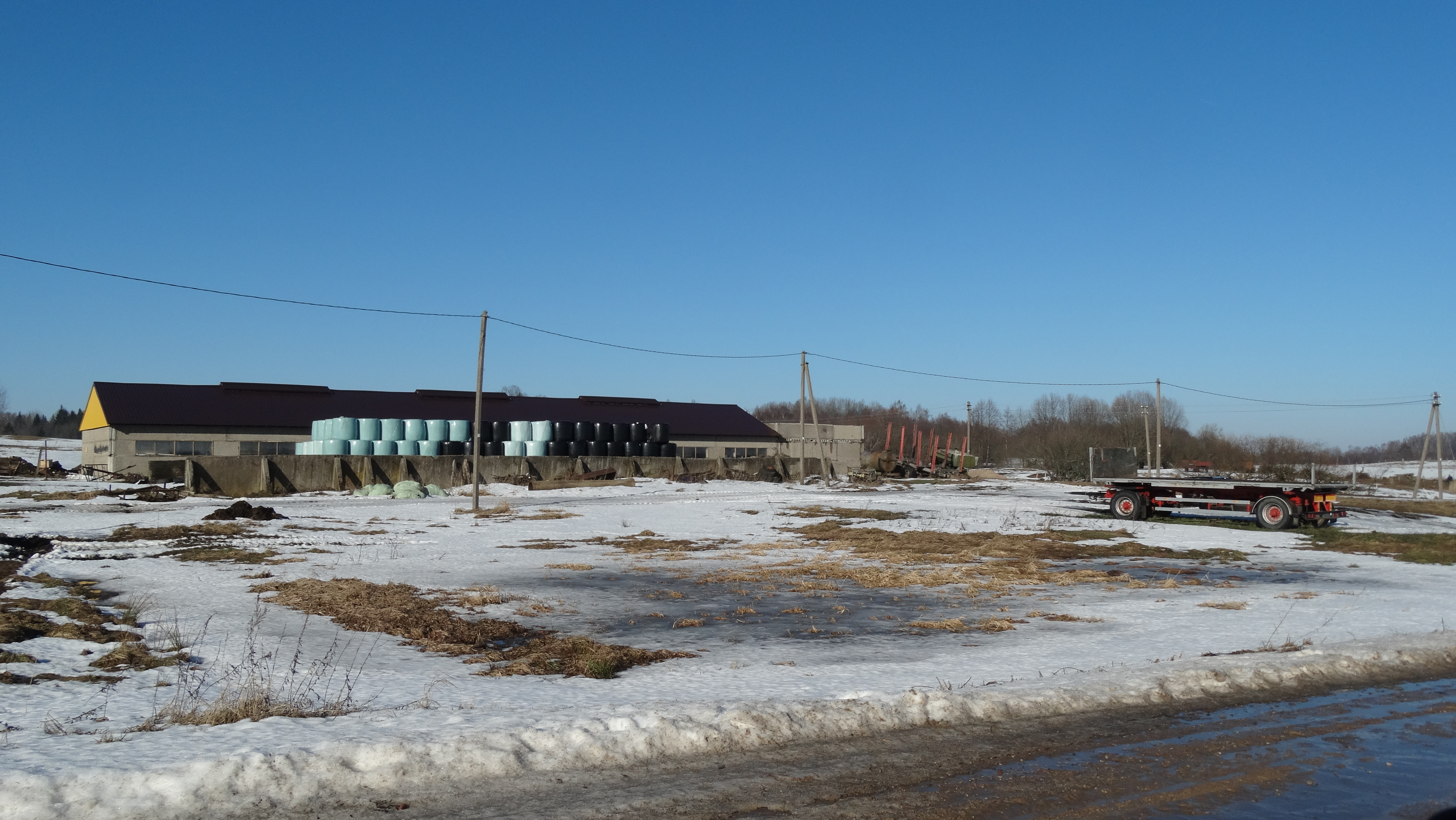 Tūbinės II, Šilalė district, Lithuania